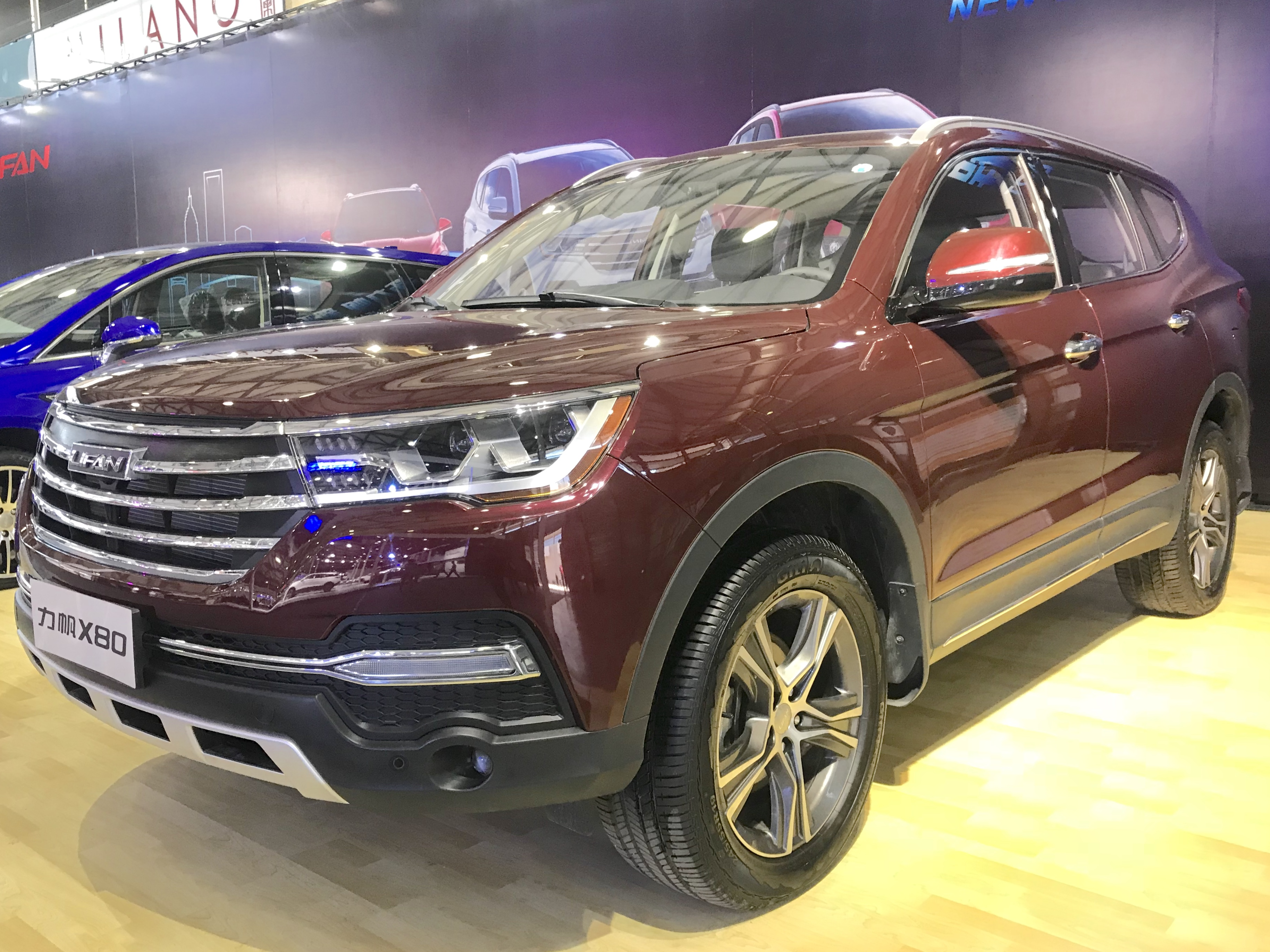 Lifan X80 front